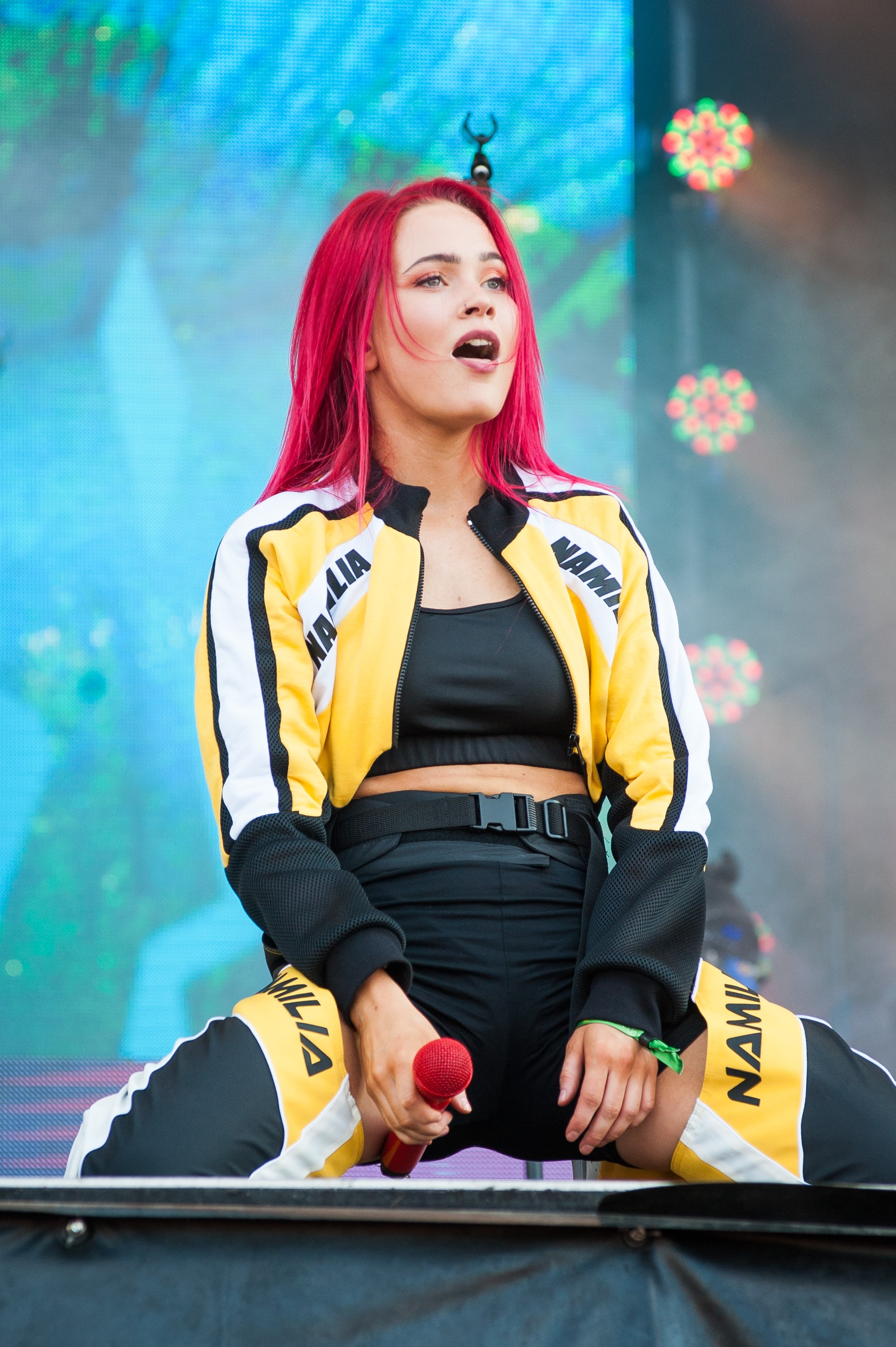 A cropped version of File:Sanni - Ilosaarirock 2018 - 14.jpg